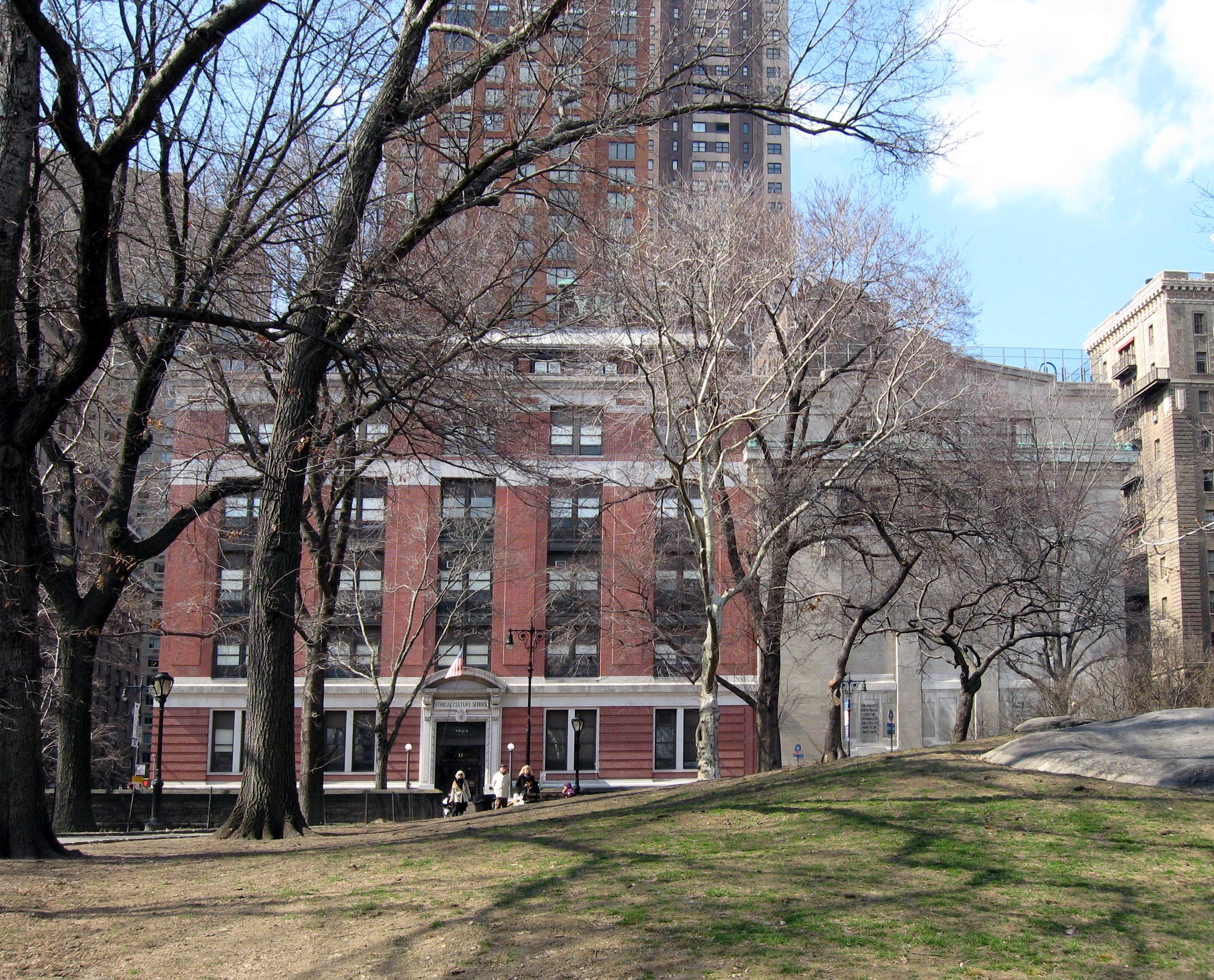 Ethical Culture Society (white on right) and Ethical Culture School (red on left) buildings as seen from inside Central Park early in the afternoon.